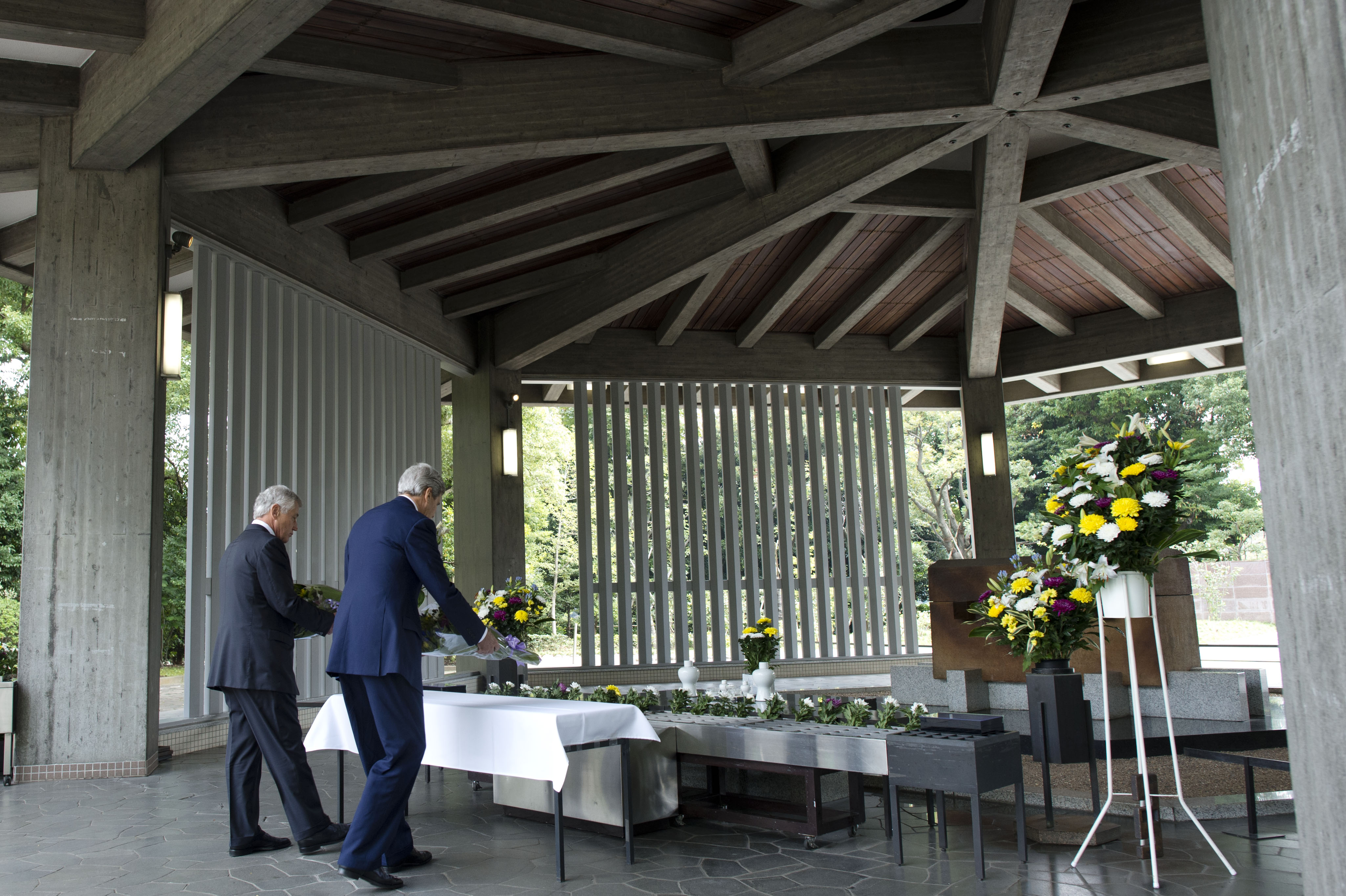 Chuck Hagel, Secretary of Defense, and John Kerry, Secretary of State, lay wreaths at the Chidorigafuchi National Cemetery in Chiyoda Ward, Tōkyō Metropolis on October 3, 2013.